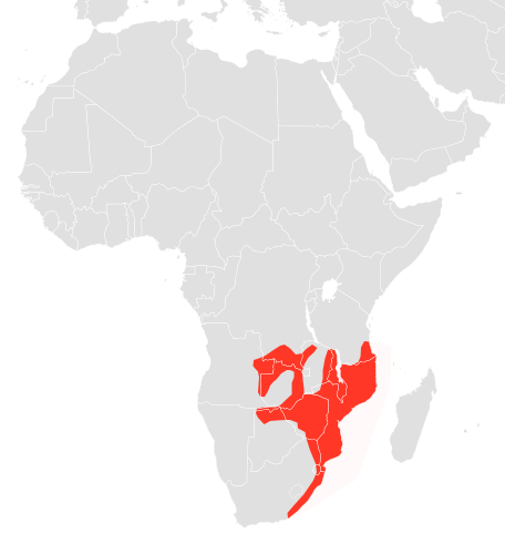 Distribution of Epomophorus crypturus